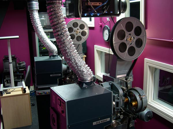 Cinemeccanica Victoria 5 35mm projectors in a changeover installation in the cinema in the Institute of Communications Studies, University of Leeds.